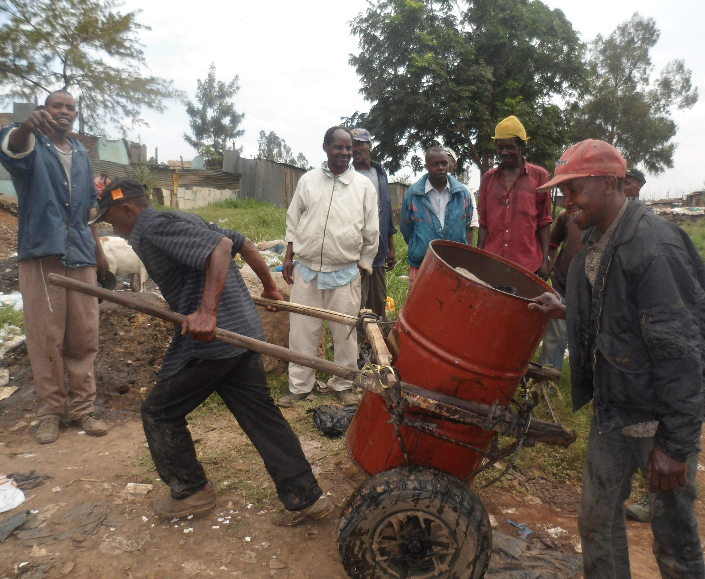 Kenya - Manual pit emptiers in Korogocho (Part 2)